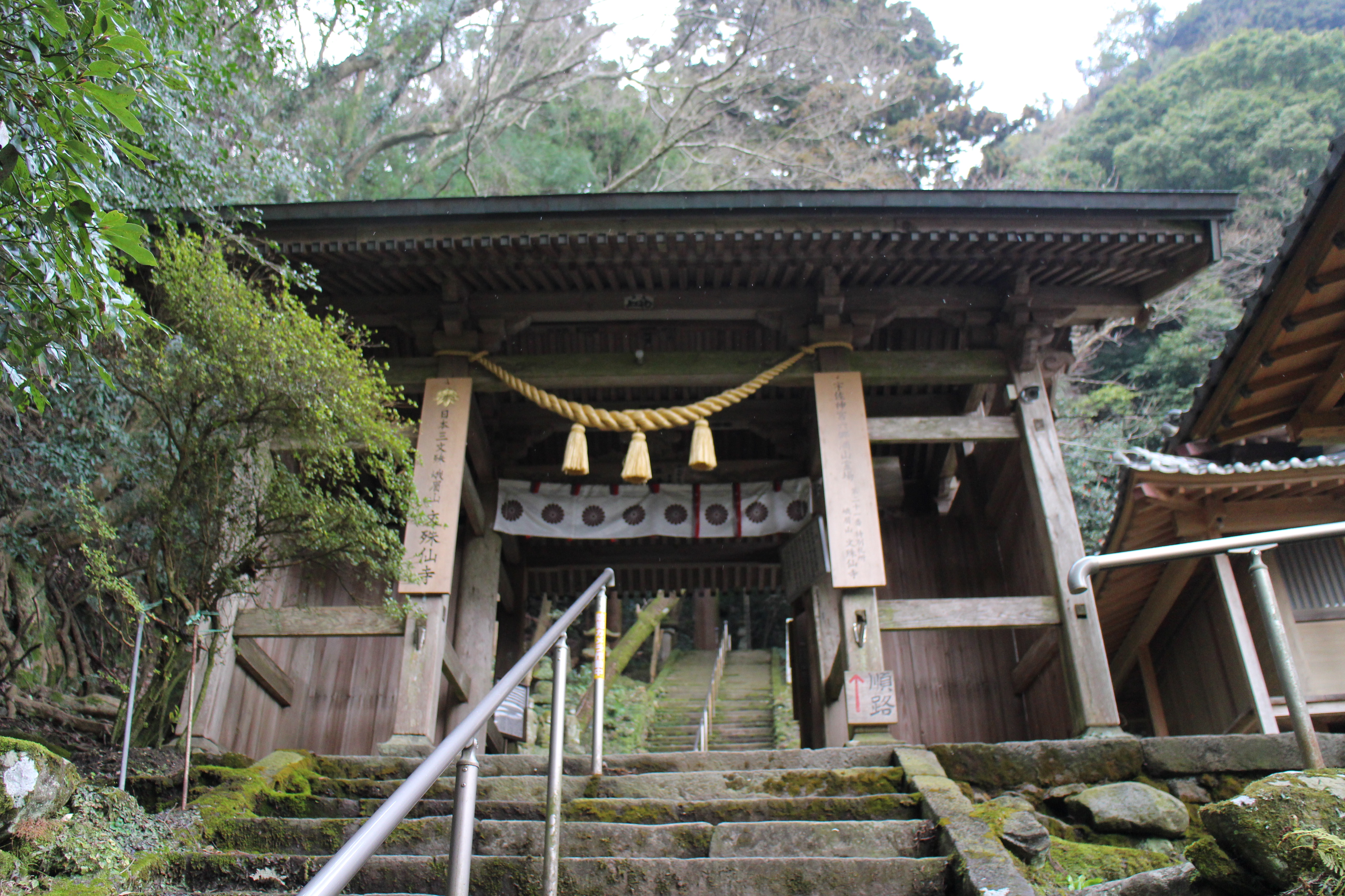 monjusenji-sanmon Na Vosa Vakaviti: 文殊仙寺 山門